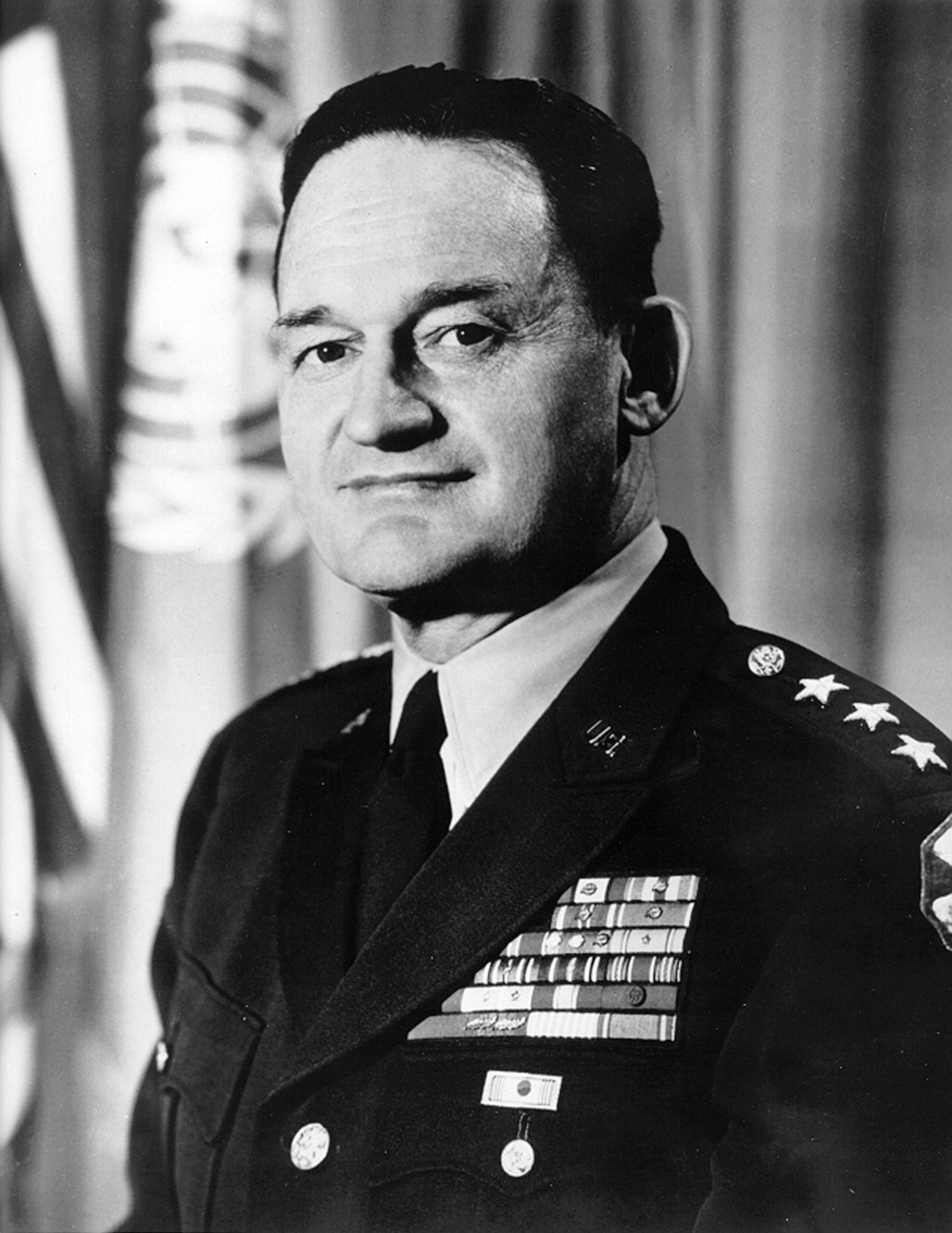 Lt. Gen Charles Day Palmer, USA